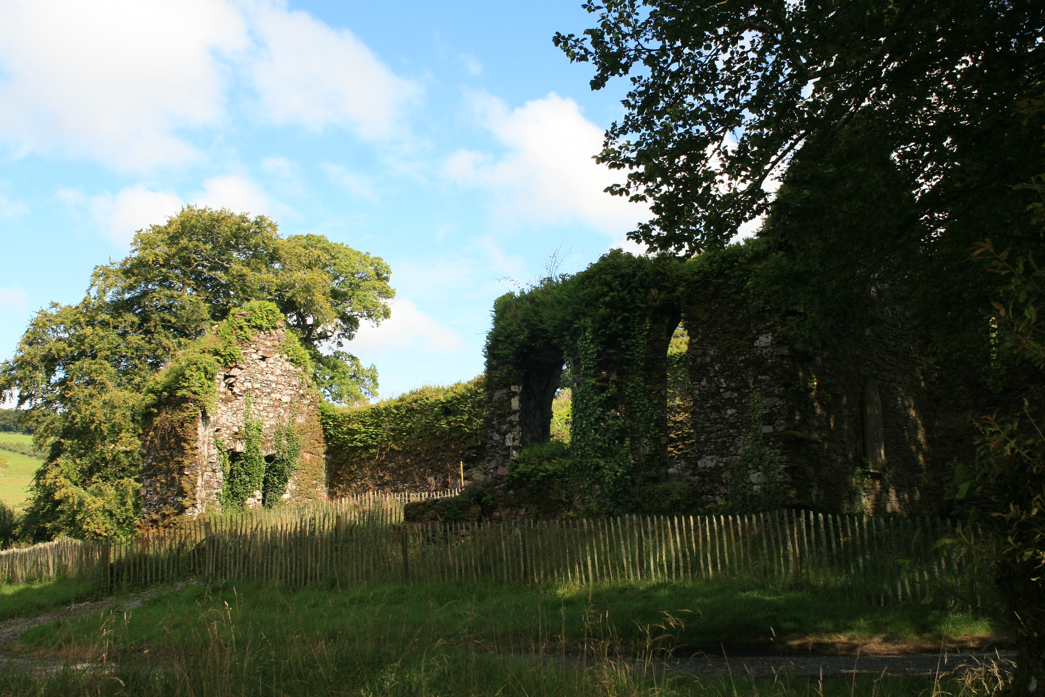 Molana Priory, County Waterford, Ireland Southern range of the monastery including the ruins of the refectory